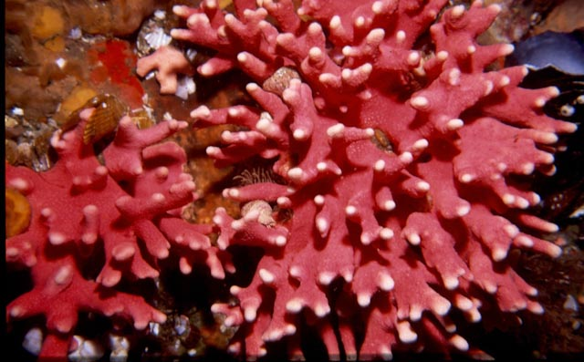 A photograph of the noble coral, Stylaster nobilis taken in 28m of water off the Atlantic Coast of Cape Town using a Nikonos V camera